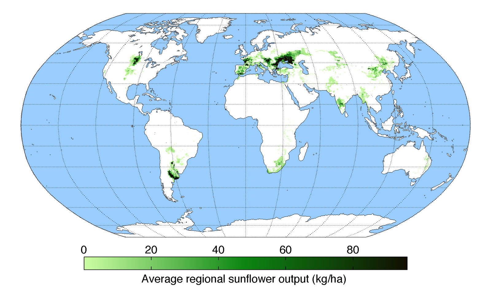 Map of sunflower production (average percentage of land used for its production times average yield in each grid cell) across the world compiled by the University of Minnesota Institute on the Environment with data from: Monfreda, C., N. Ramankutty, and J.A. Foley. 2008. Farming the planet: 2. Geographic distribution of crop areas, yields, physiological types, and net primary production in the year 2000. Global Biogeochemical Cycles 22: GB1022